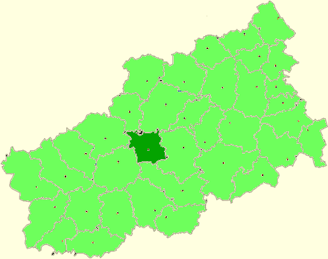 Tver Oblast map by Al Silonov